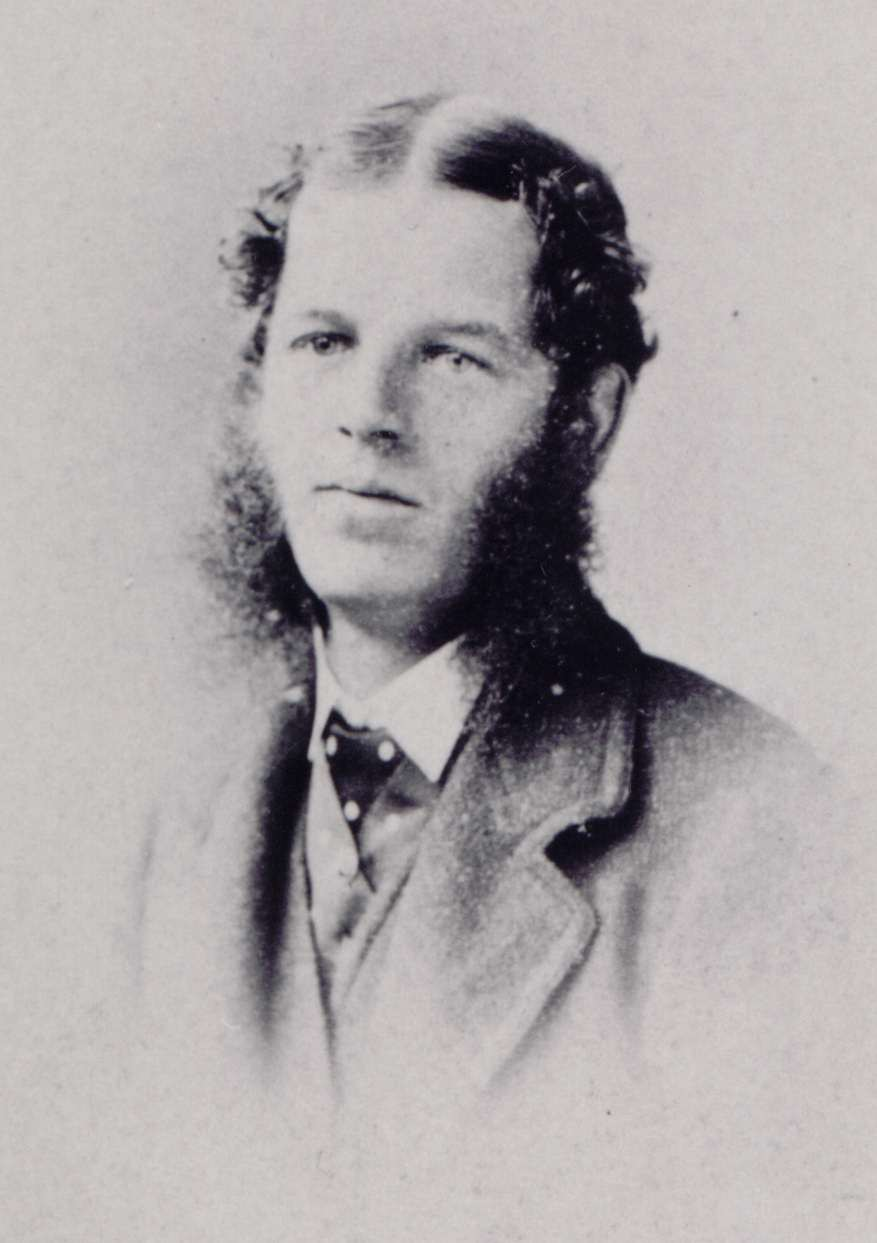 Portrait of architect, Robert Kelfull Speechly